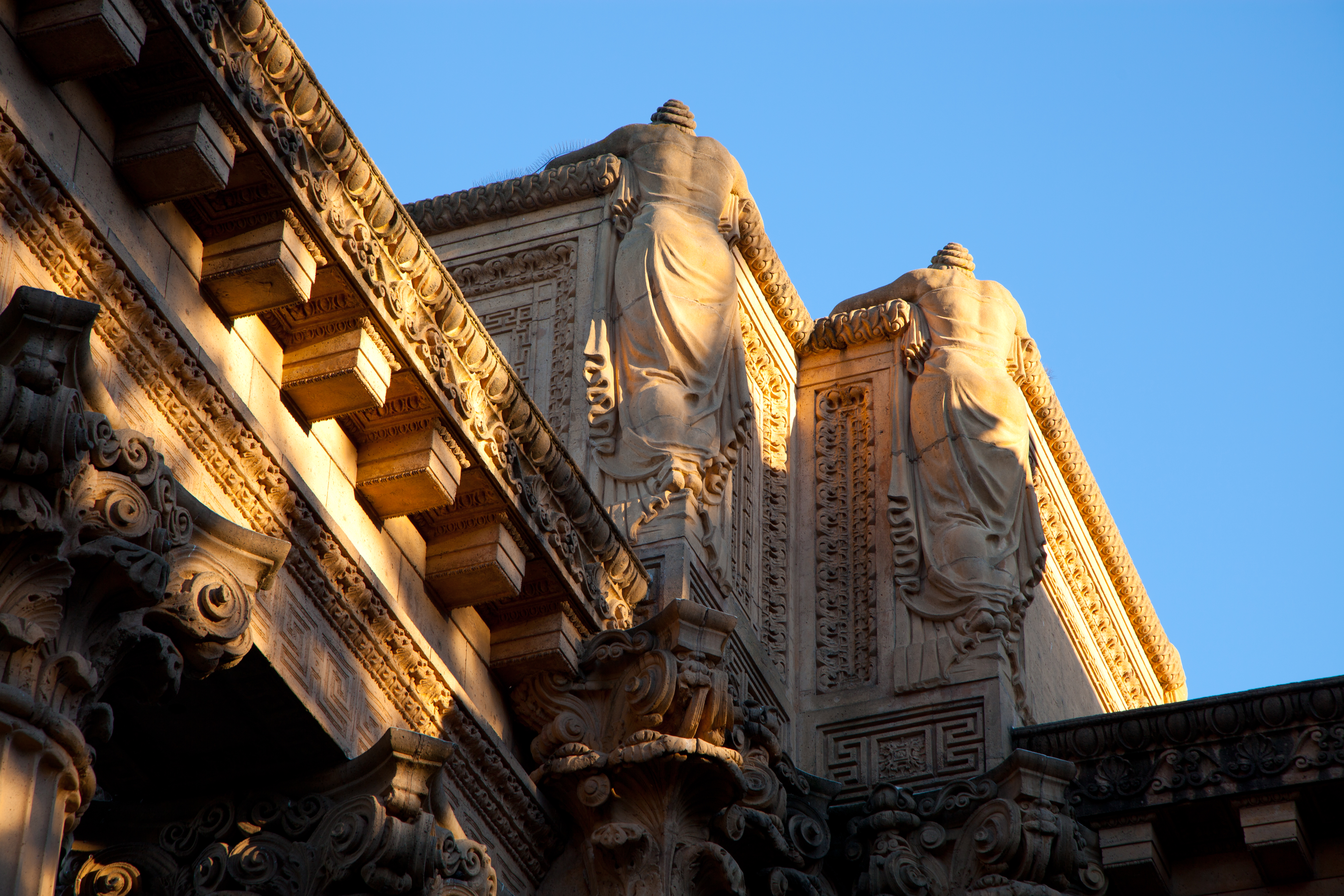 Palace of Fine Arts